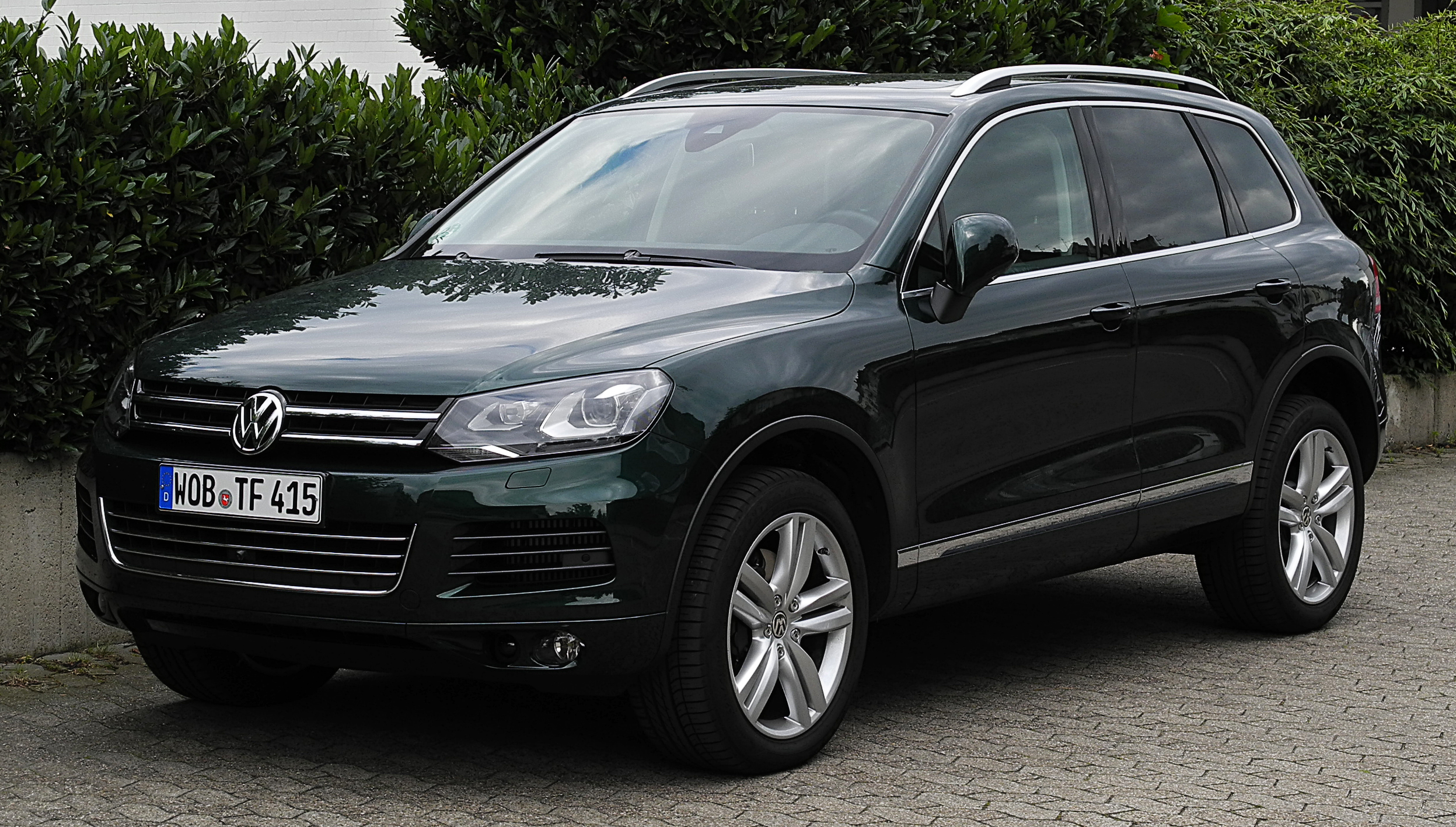 VW Touareg V8 TDI (II)